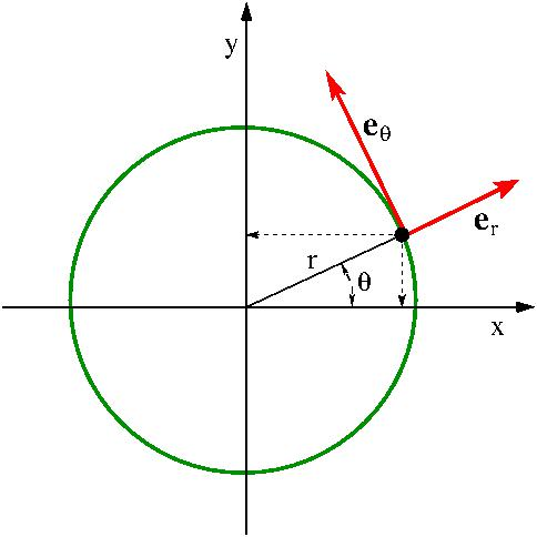 Basis vectors in 2-dim polar coordinates.